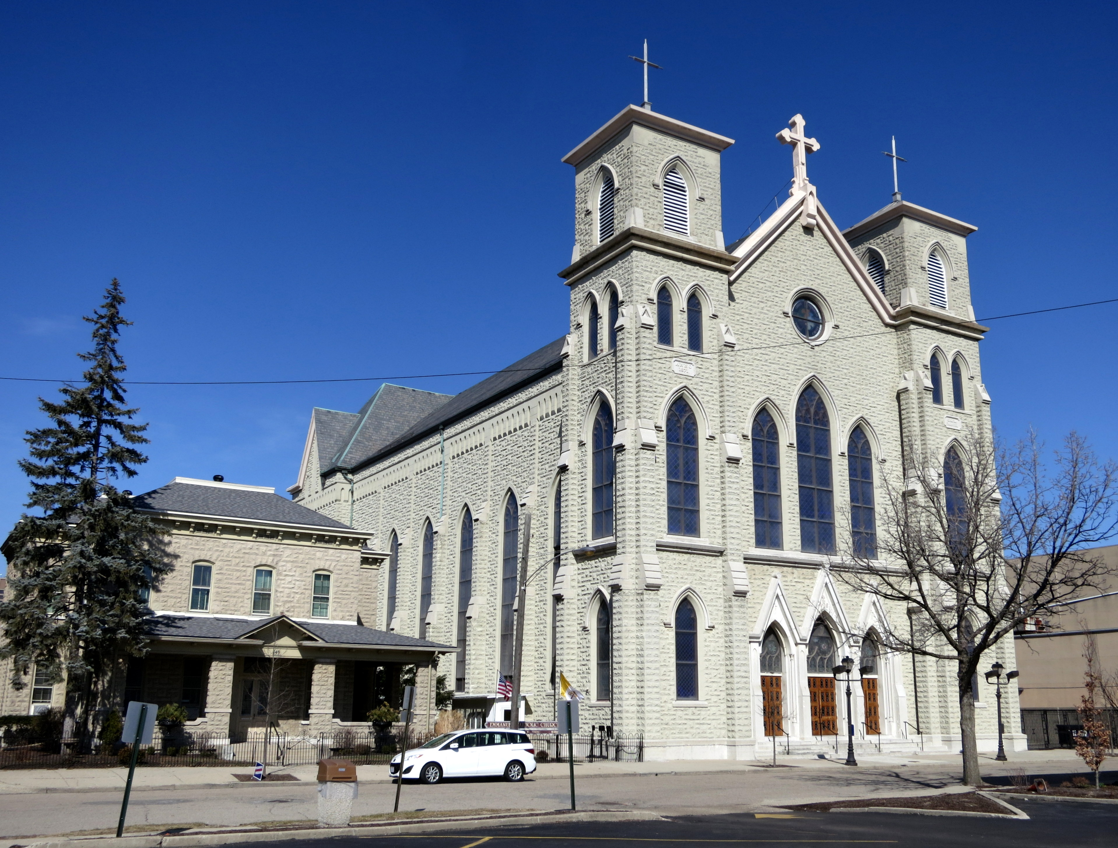 Emmanuel Catholic Church (Dayton, Ohio) - exterior